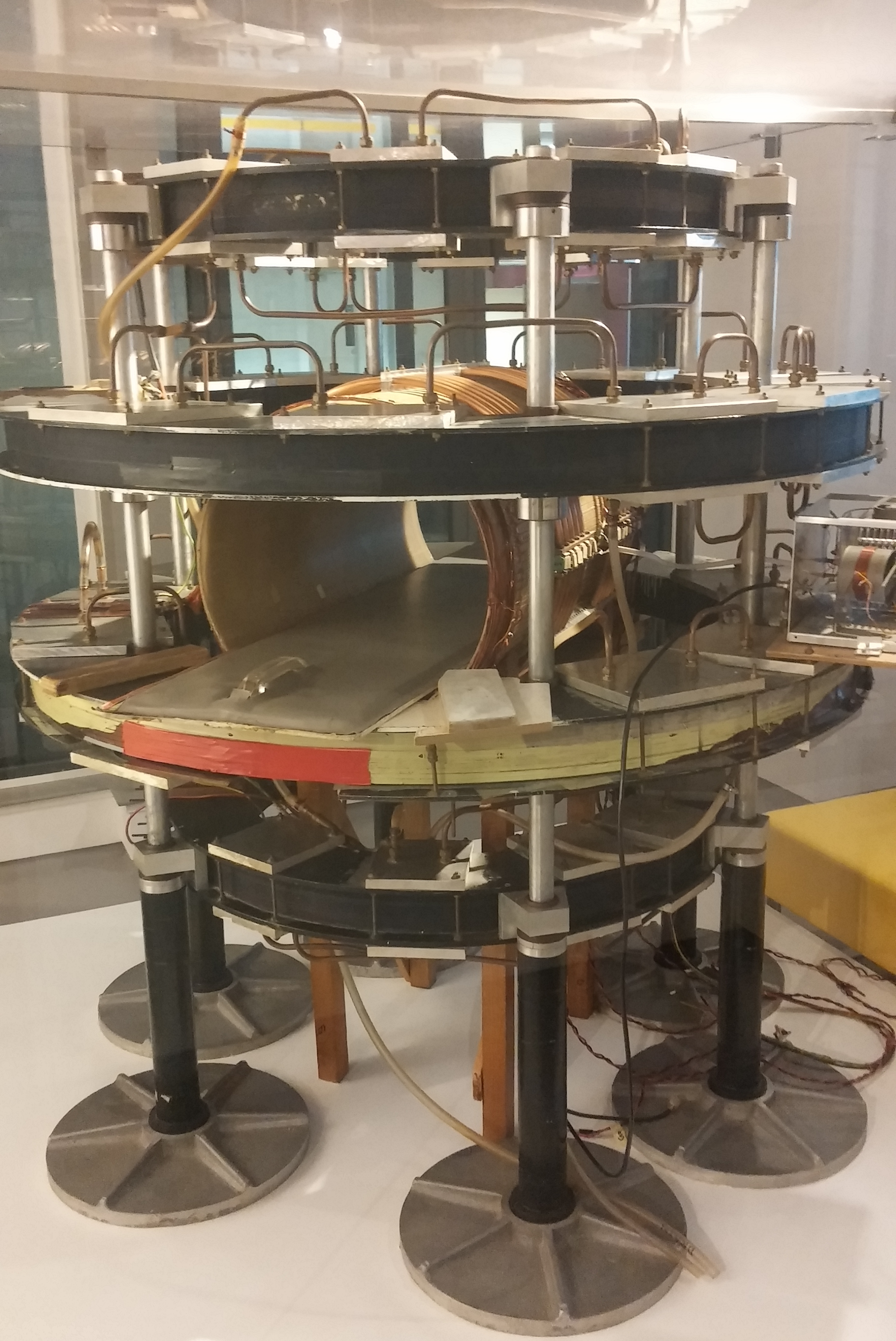 The MRI Scanner, described as the first one ever used, know as the Mark One, created at Aberdeen Royal Infirmary, Scotland. Photo taken in the Suttie Art Space in Aberdeen Royal Infirmary, where the device has been on display since February 2016.